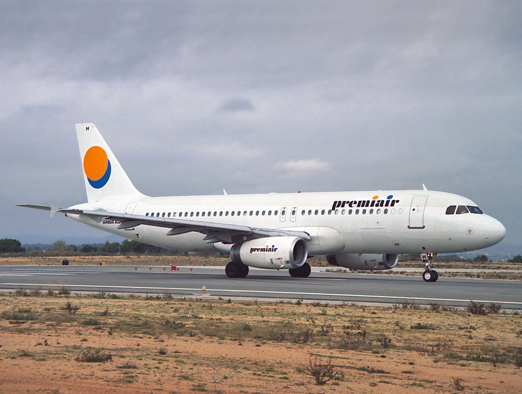 Premiair Airbus A320-231 OY-CNH at Faro Airport